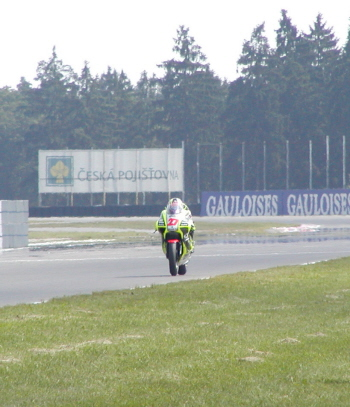 Casey Stoner, GP Brno 2002